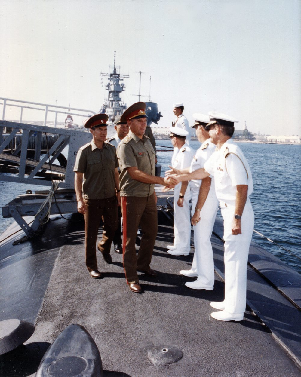 USS Guitarro (SSN-665) hosting the first tour of a US nuclear submarine by high-ranking Russian officials: General Colin Powell is in the rear of the group